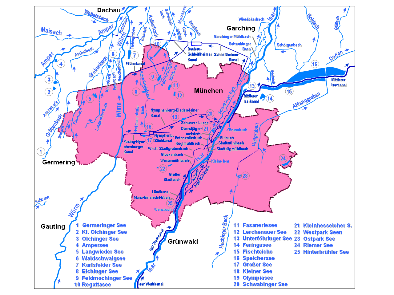 Map of water bodies in Munich/Germany